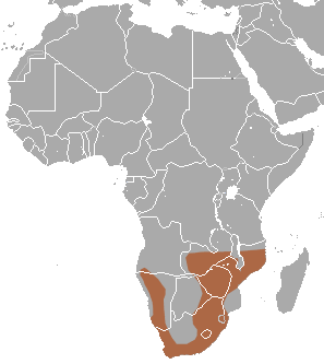 Reddish-gray Musk Shrew (Crocidura cyanea) range